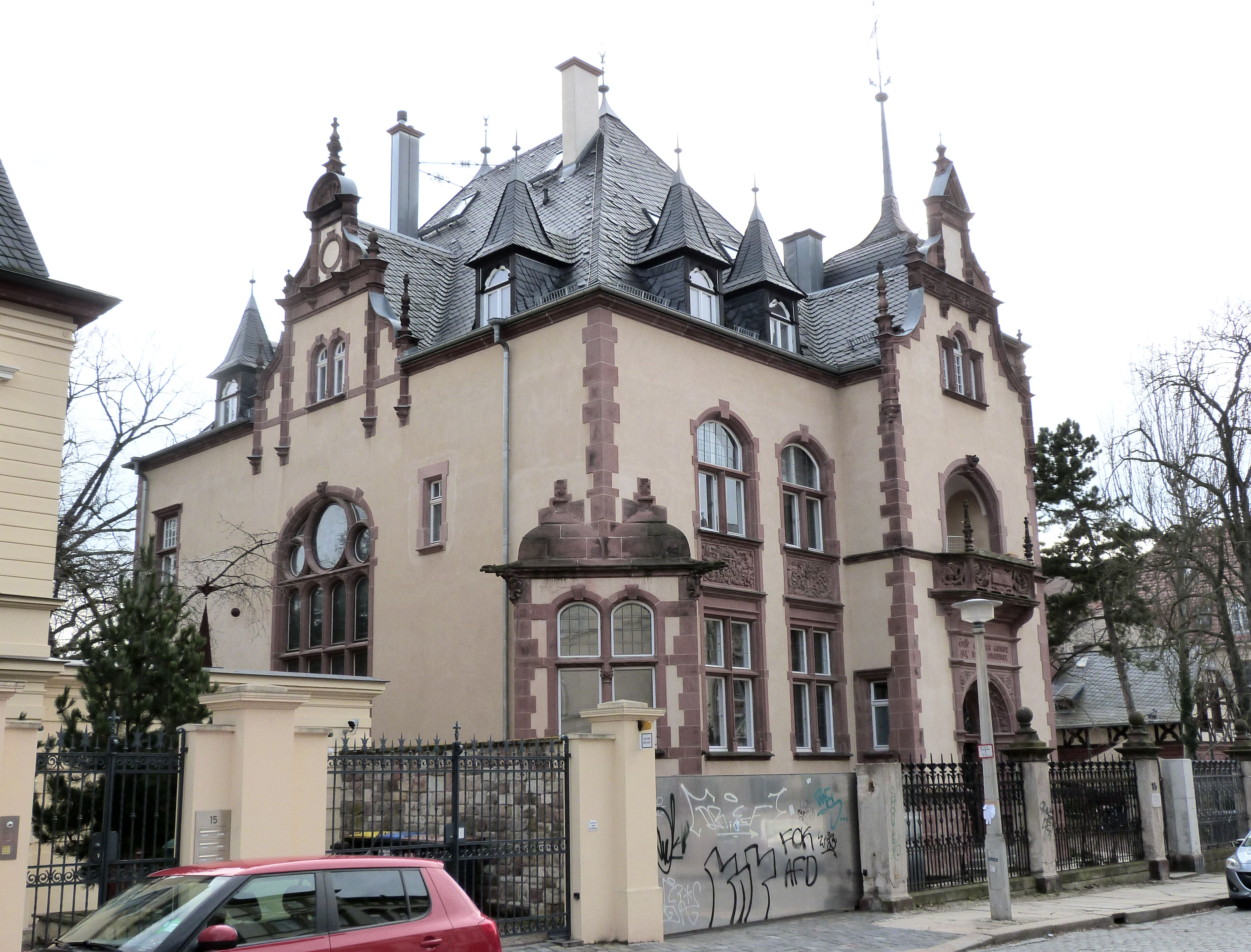 Villa Weise, Händelstrasse No. 16, Halle (Saale)